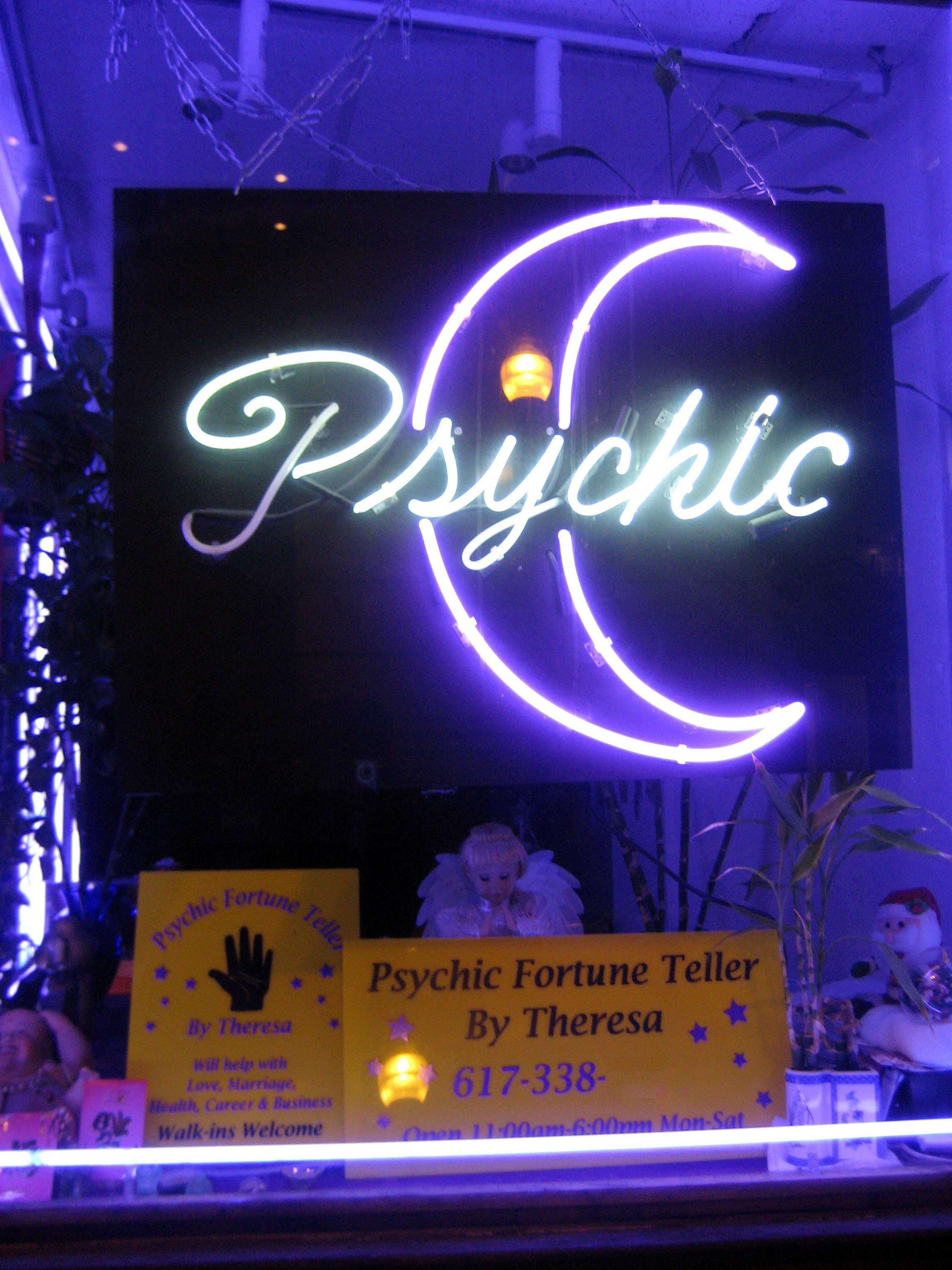 Storefront Psychic fortuneteller in Downtown Crossing, Boston. January 2009 photo by John Stephen Dwyer